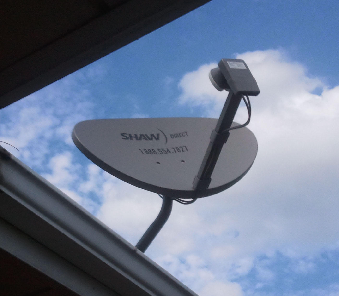 Shaw Direct 45x60cm satellite television dish and new three-satellite LNB. This dish receives signals from three satellites.